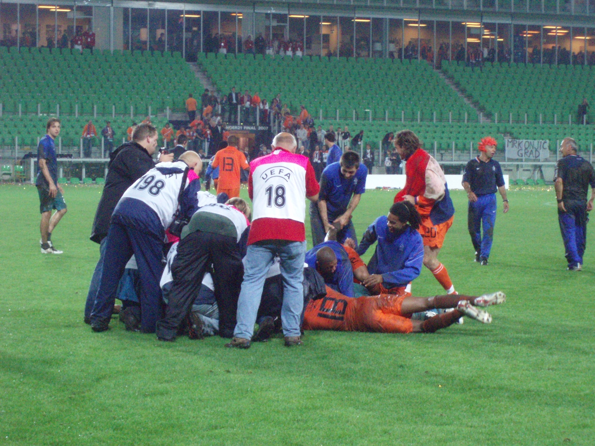 The Netherlands winner of 2007 UEFA European Under-21 Football Championship